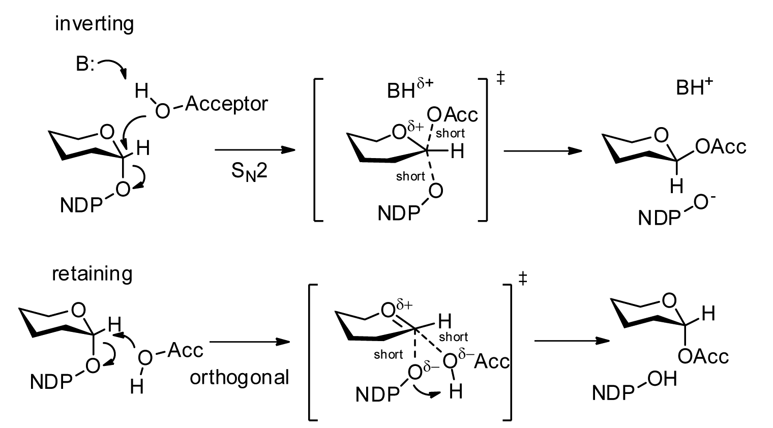 Displays the associative chemical mechanisms utilized by retaining and inverting glycosyltransferases